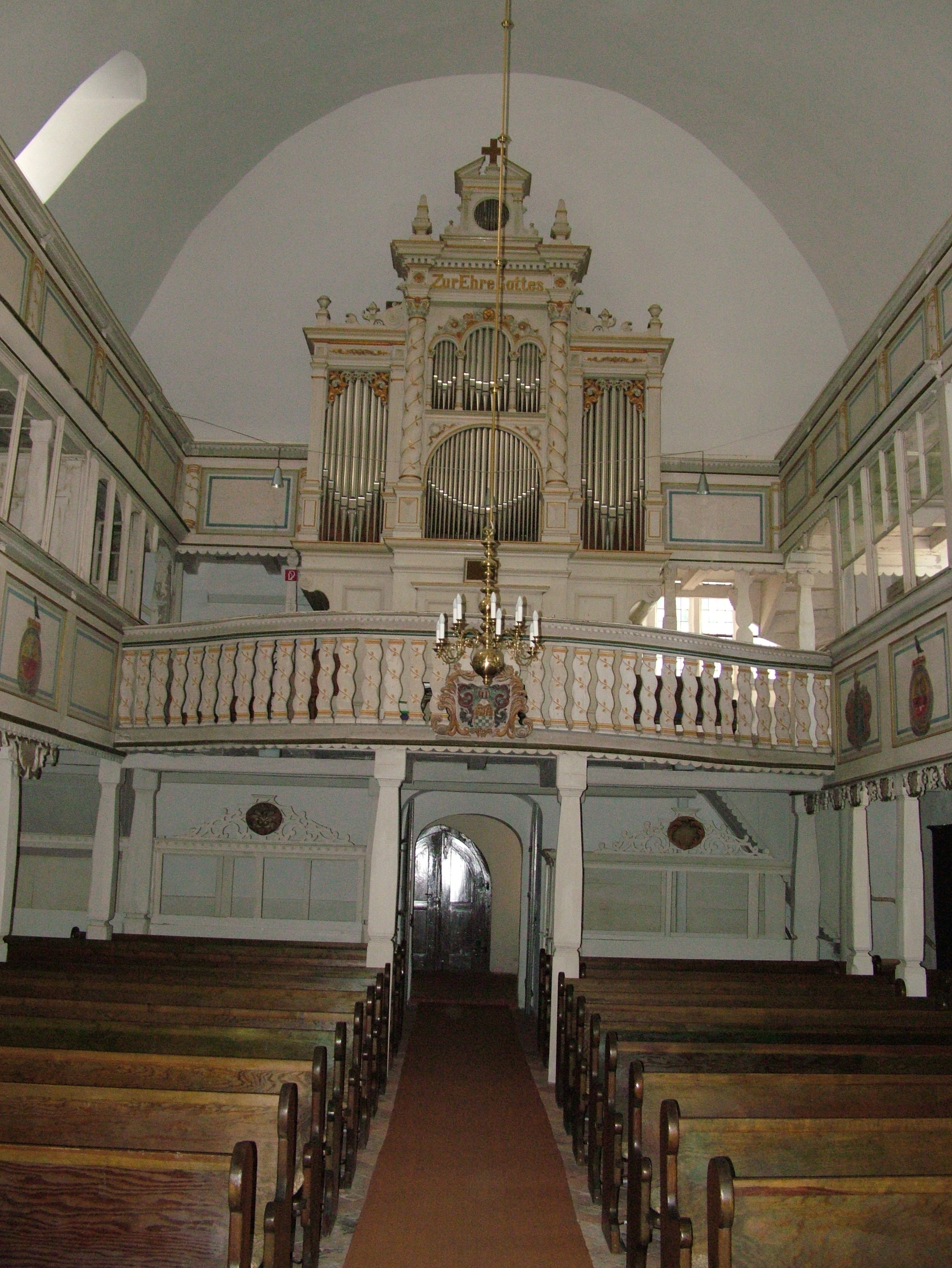 Vetschau, Germany altar of the church